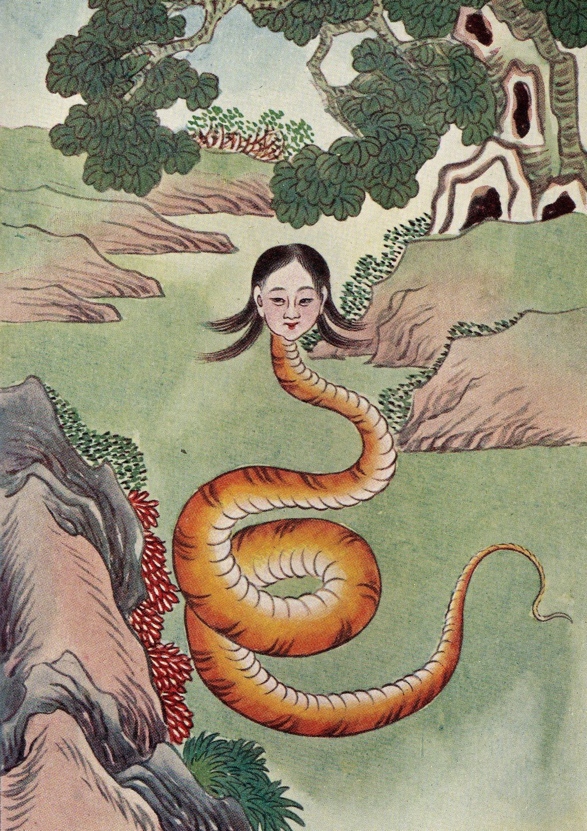 Nuwa, Chinese creator goddess